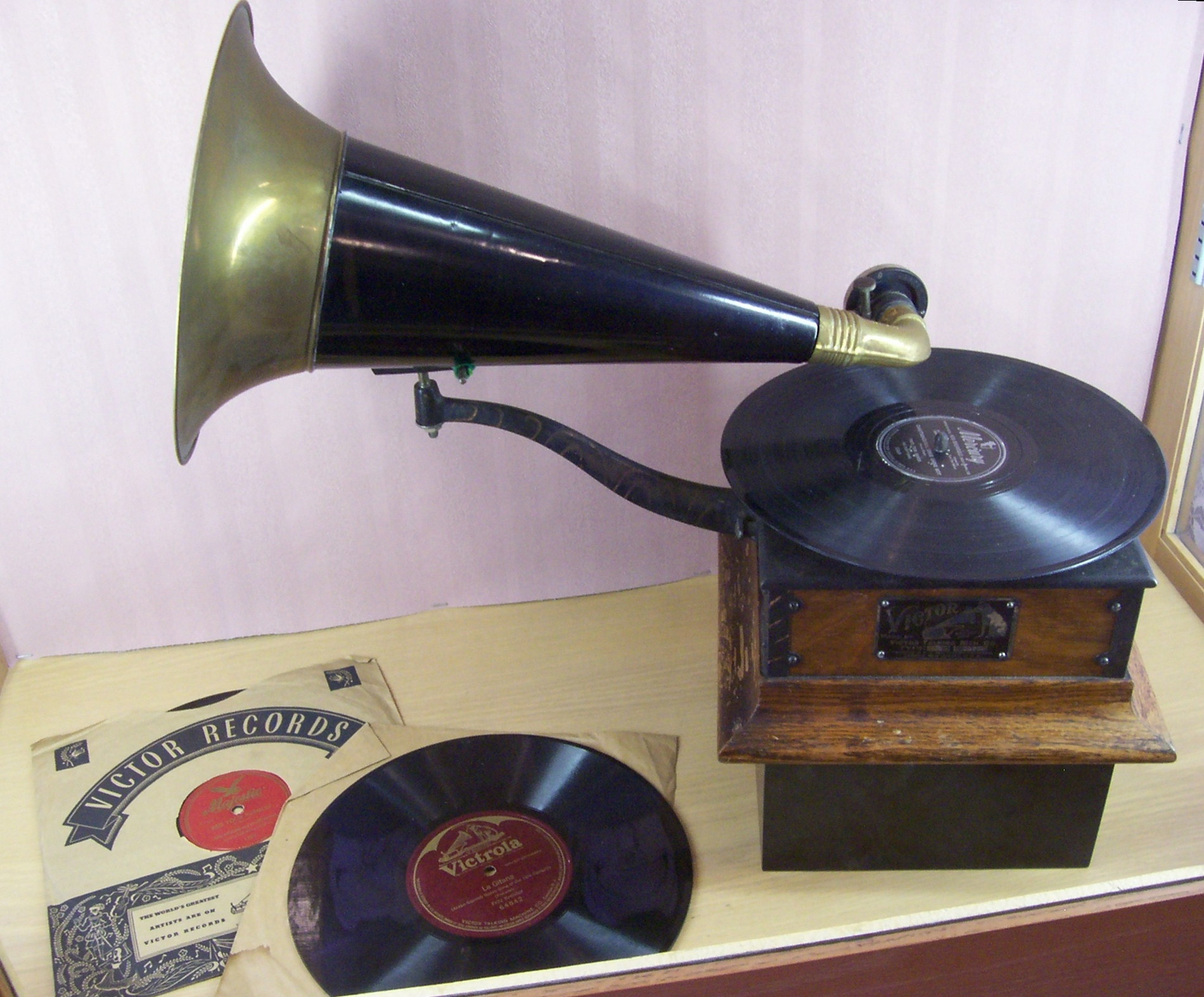 A Victor Talking Machine and Victor records, taken at the William D. Hoard Historic Museum in Fort Atkinson, Wisconsin, USA.